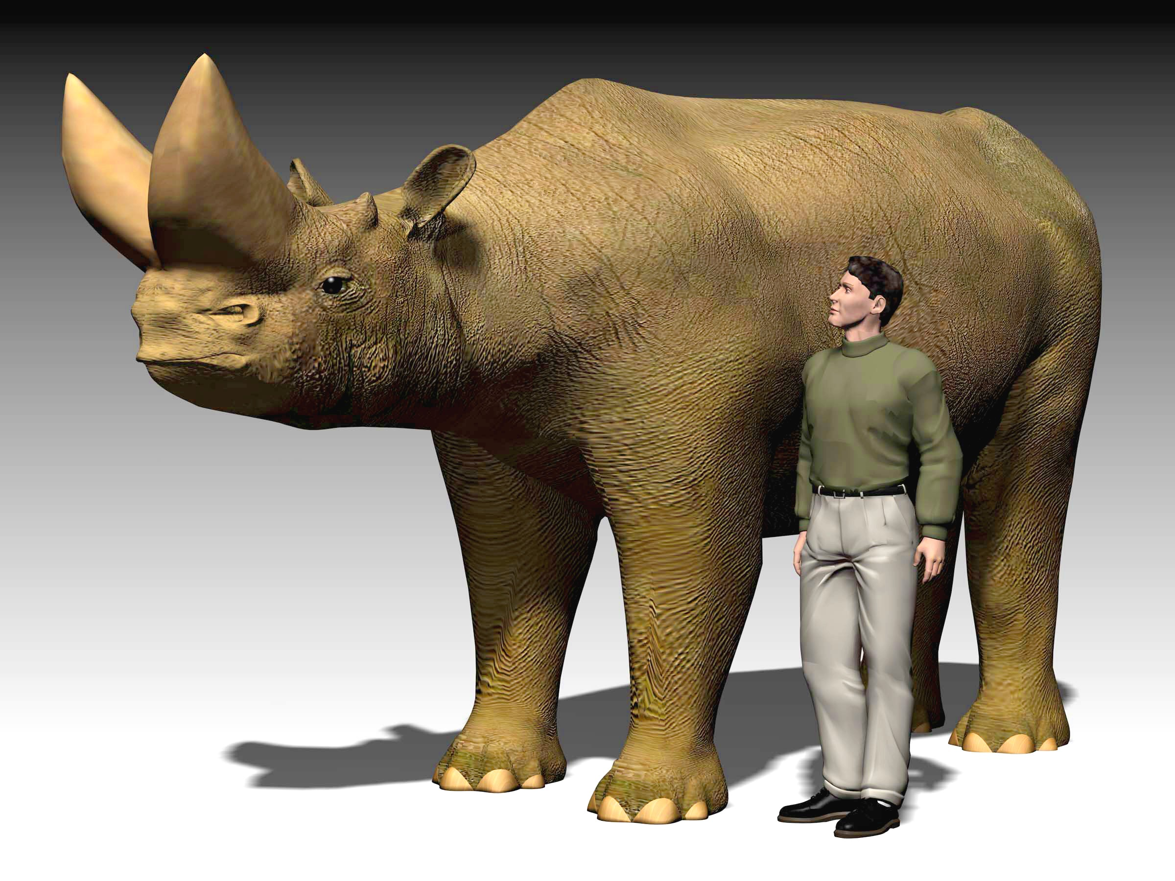 Original description: Image: An example of the genus Arsinoitherium, a large mammal of the Oligocene epoch (approximately 24-34 million years ago), with an average-sized modern man shown for scale. Caption: A new species of Arsinoitherium found in the Chilga region of Ethiopia is both the largest (probably standing ~7 feet at the shoulder) and the youngest (approximately 27 million years old) yet discovered. An average-sized modern man is shown for scale. Additional note: This life restoration shows the species Arsinoitherium giganteum Sanders et al., 2004. New large−bodied mammals from the late Oligocene site of Chilga, Ethiopia. In: Acta Palaeontol. Pol. 49 (3): 365–392, 2004